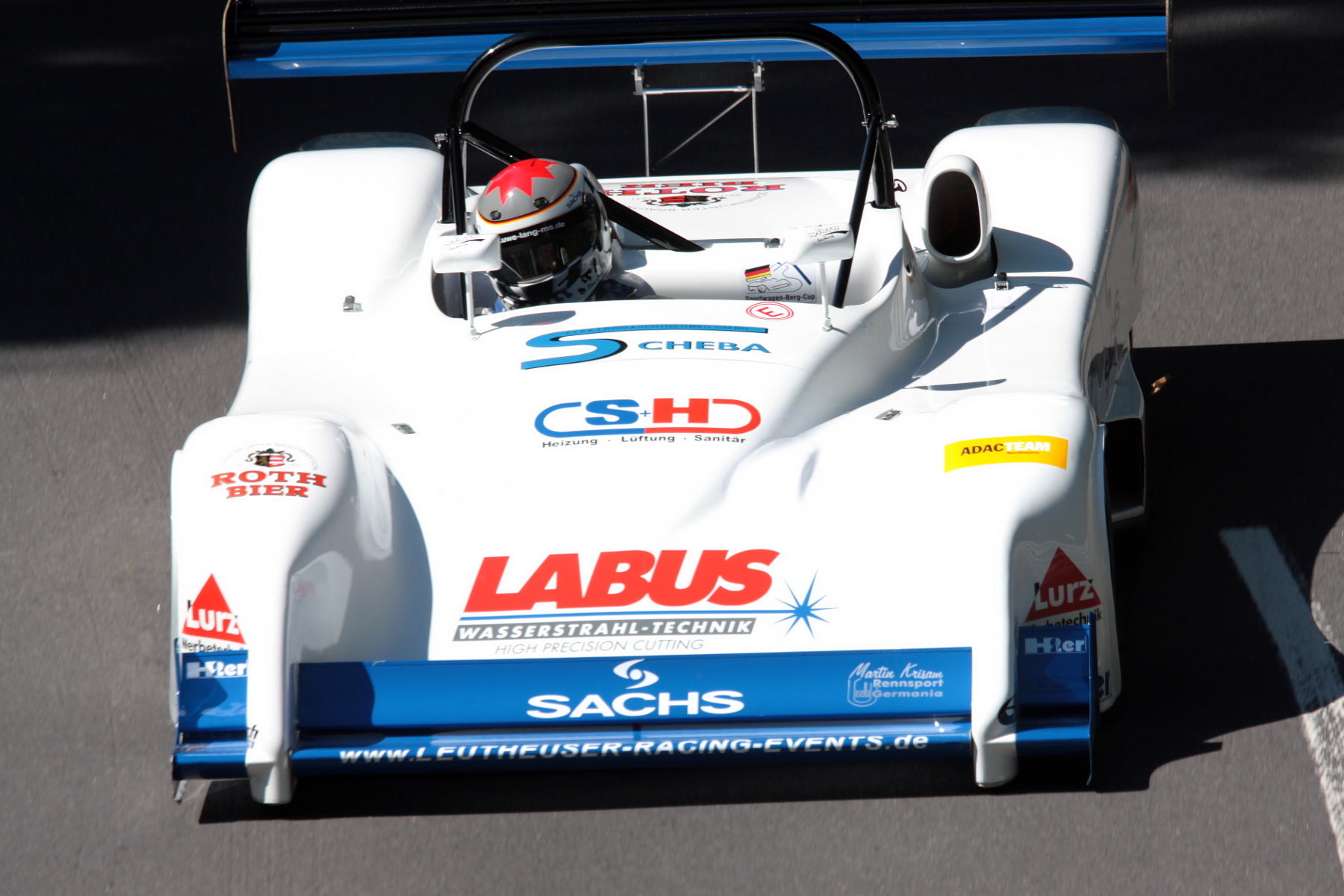 Uwe Lang driving a Osella PA20/S at Eichenbühl Hillclimb 2012